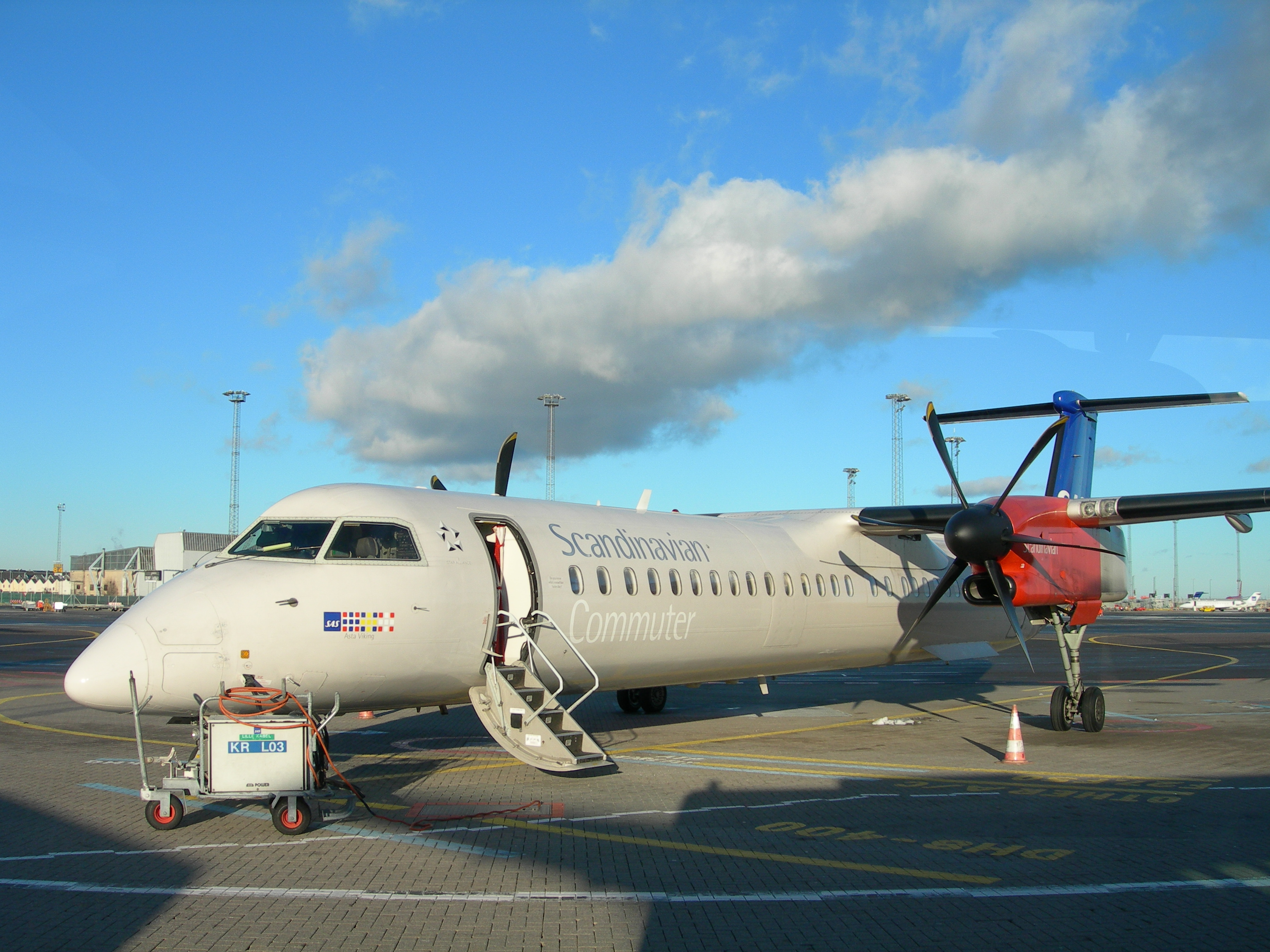 Scandinavian Commuter Bombardier Q400 at Copenhagen Airport